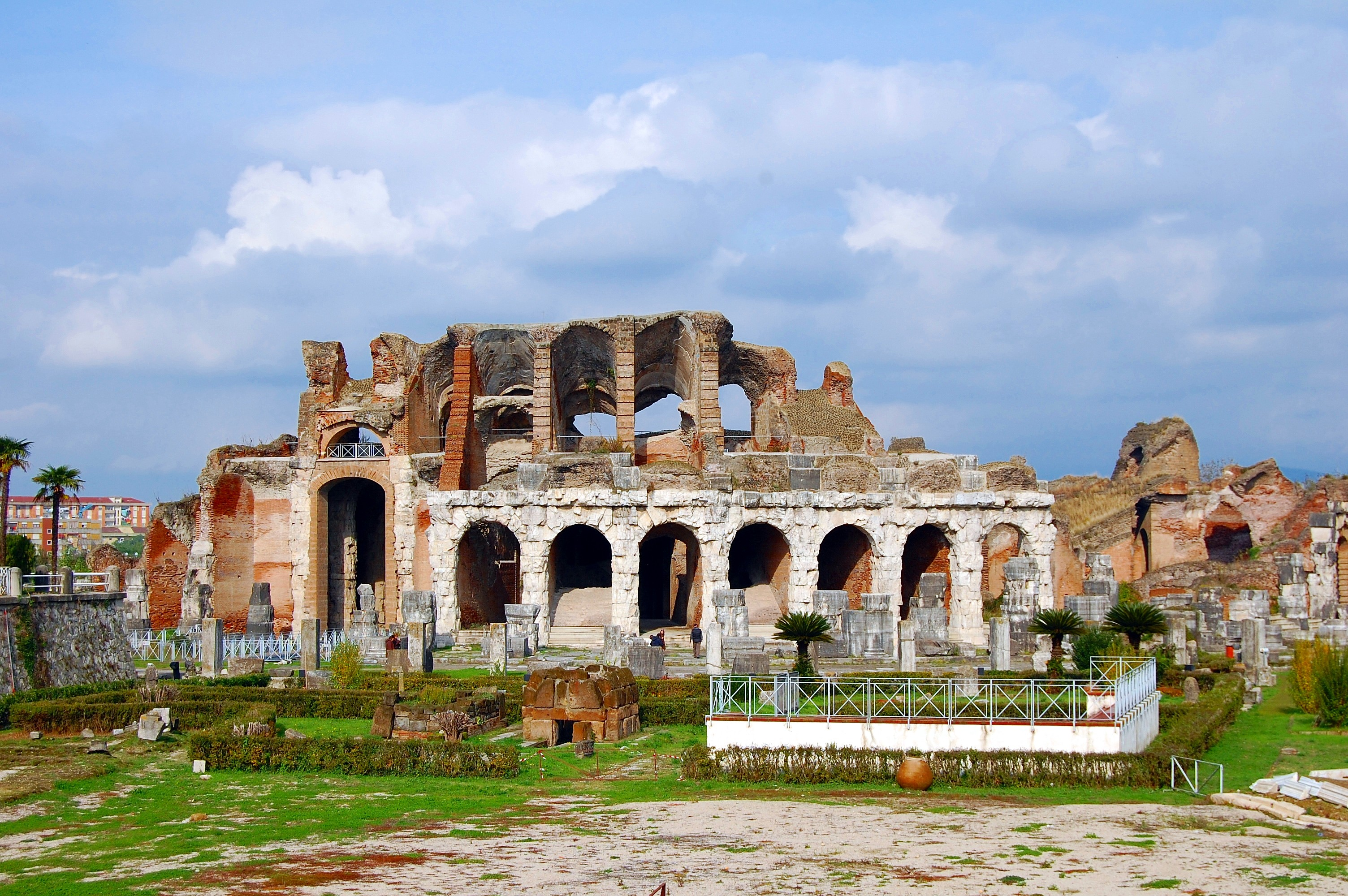 The Amphitheatre of Santa Maria Capua Vetere